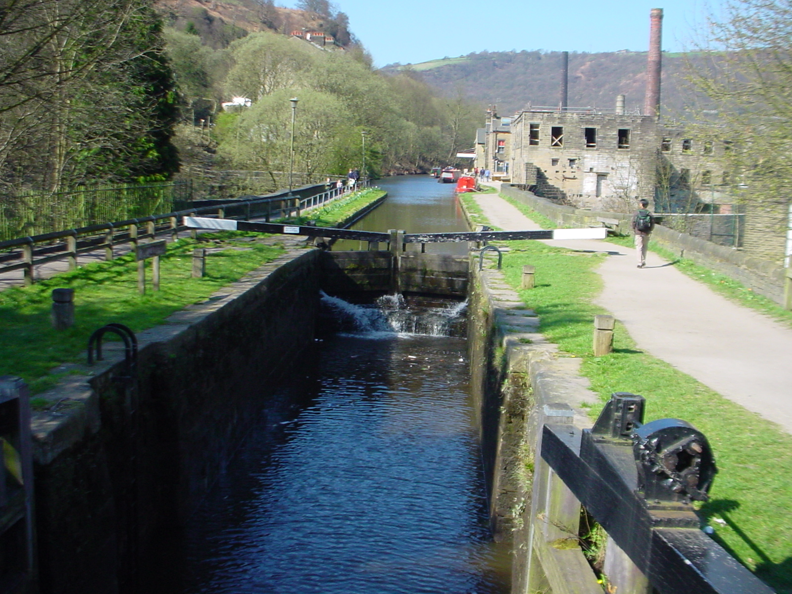 The Rochdale Canal at Hebden Bridge, Yorkshire Spring 2002